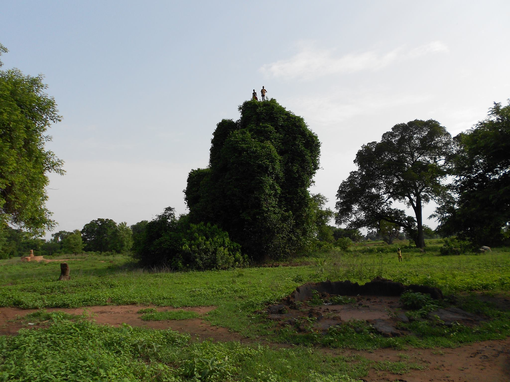 Adior town, Lake state, South Sudan (2014). Two children were seen floating freely on this thorny bush tree just outside the Health facility. This mohagany is around 15metre height and the climbing tree species which produces a sweet fruits is locally known as "Pwomo" grew and cover the tree. They children had eaten and harvest the fruits and where able to make funs by standing without holding the branch on top to view the distant areas in the evening. This is an image with the theme "Africa on the Move or Transport" from: South Sudan